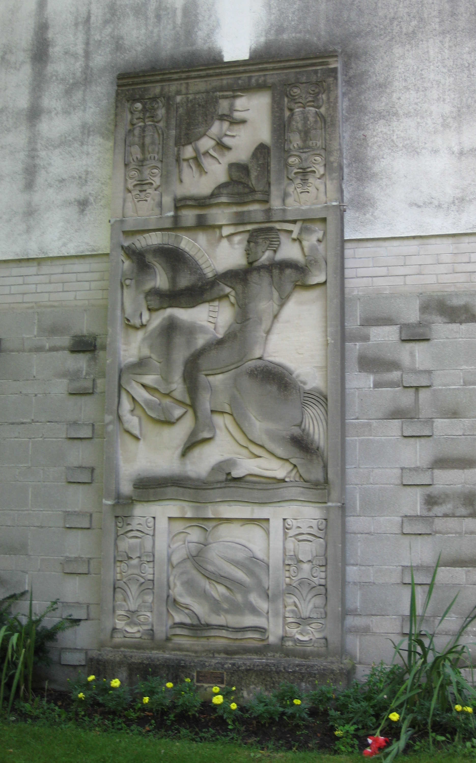 Stone carving from the Old Globe and Mail Building at the Guild Inn